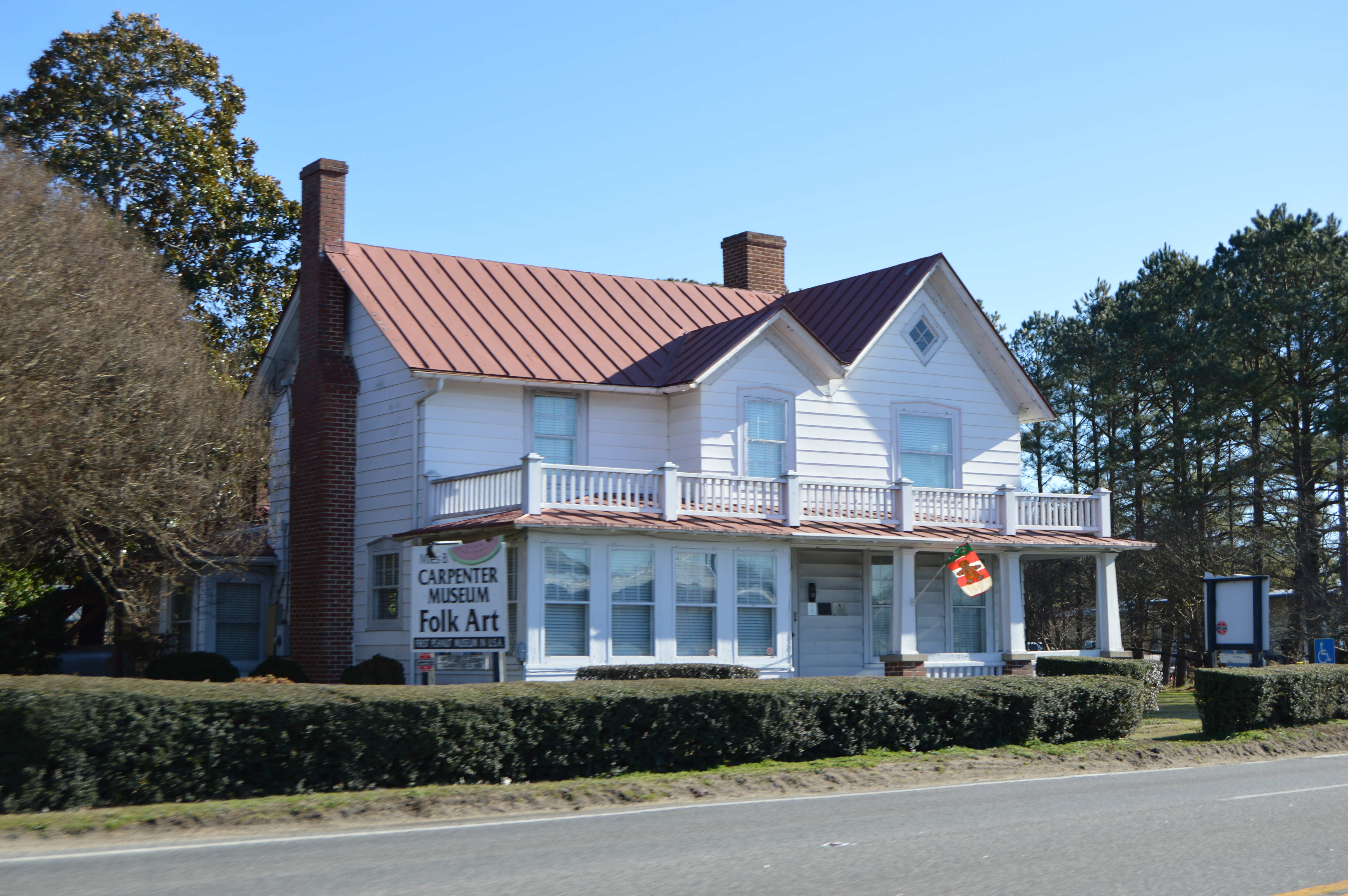 Front and northwestern side of the Miles B. Carpenter House, located on County Drive (U.S. Route 460) just south of the Hunter Street intersection in Waverly, Virginia, United States. Built in 1890, it is listed on the National Register of Historic Places.